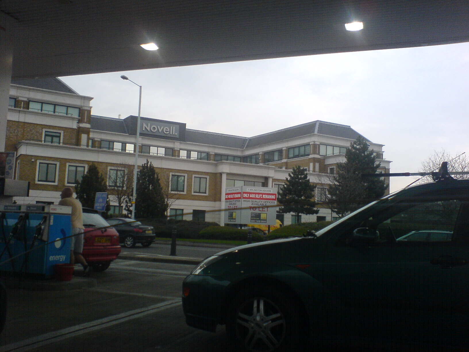 Novell building in Bracknell, Berkshire, UK, as seen in 2006. The full address was Novell House, 1 Arlington Square, Downshire Way, Bracknell Berkshire, RG12 1WA. Among other tasks, work on SuSE Linux was done there.